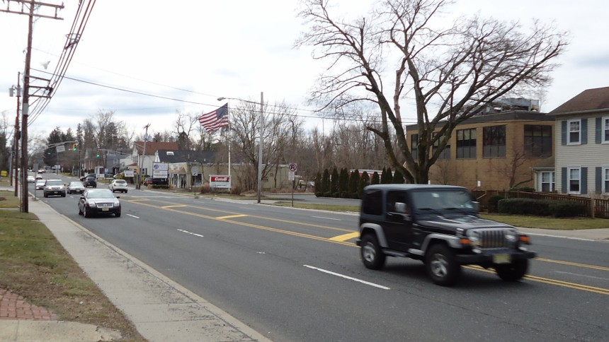 Route 35, looking southbound, in Shrewsbury, New Jersey